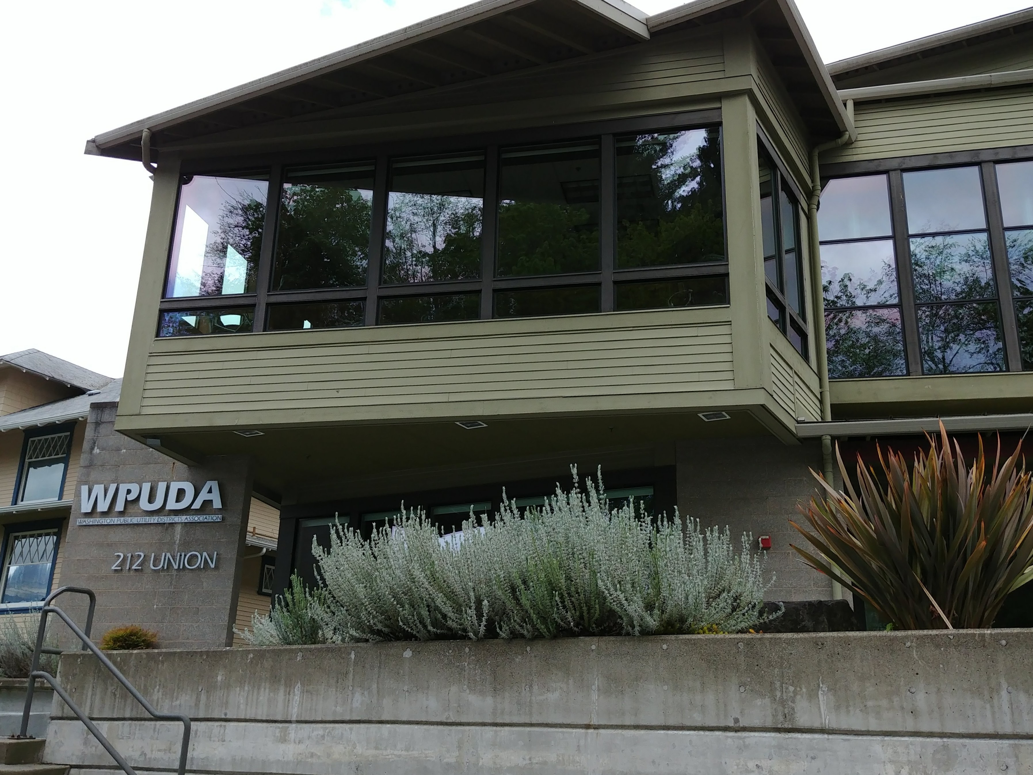 Washington PUD Association headquarters building, 212 Union Street, Olympia, Washington, U.S.